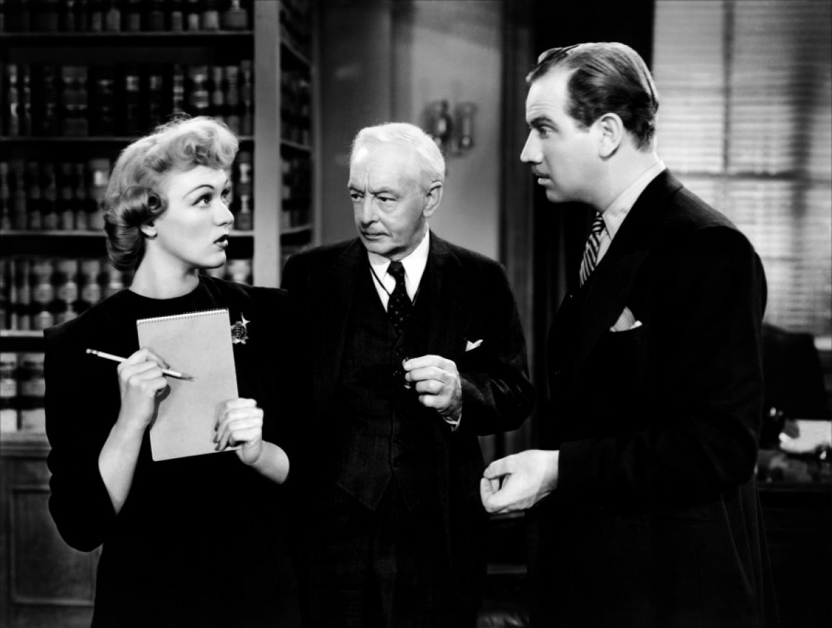 L. to R. : Eve Arden, Harry Davenport & Melvyn Douglas in That Uncertain Feeling - cropped screenshot